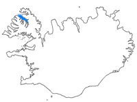 Map of Iceland showing the location of Ísafjarðardjúp fjord.